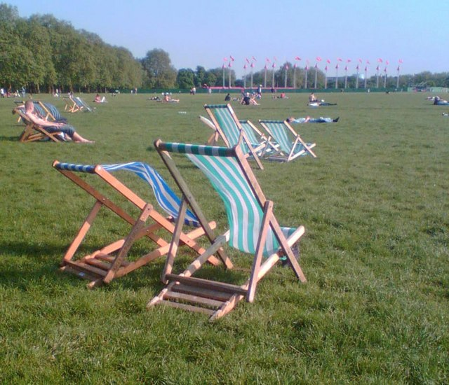 Hyde Park deck-chairs In the background is the preparation for the Playtex walk the walk event.